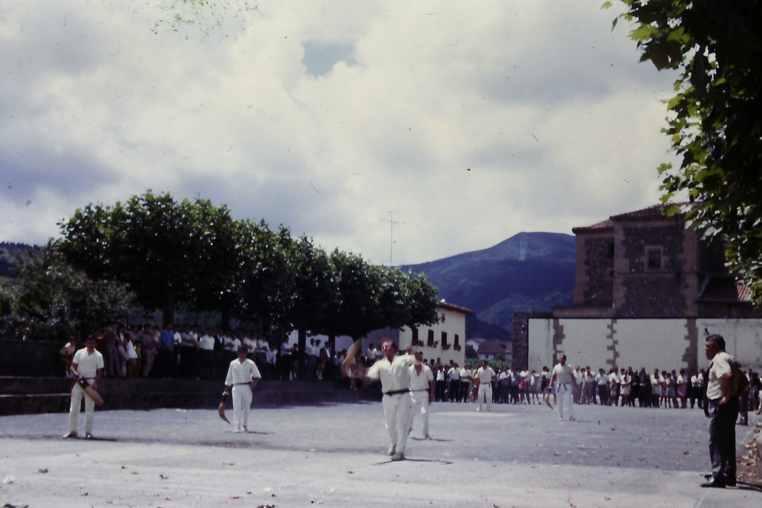 Joko garbi modalitatean jokatzen, Zubietako frontoi irekian (1970eko hamarkada)